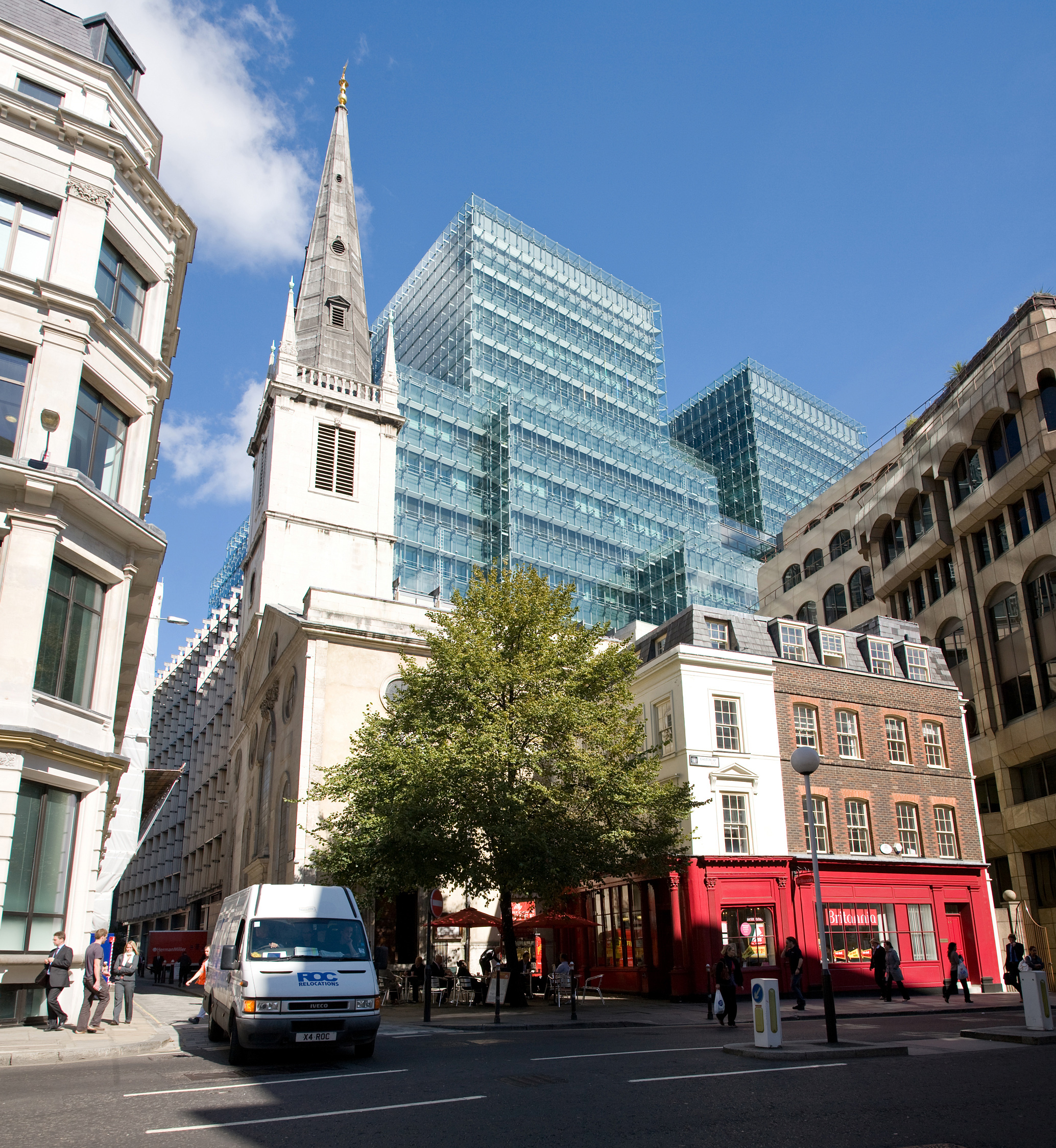 Plantation Place as viewed from Eastcheap in London. Taken by myself with a Canon 5D and 24-105mm f/4L IS lens.